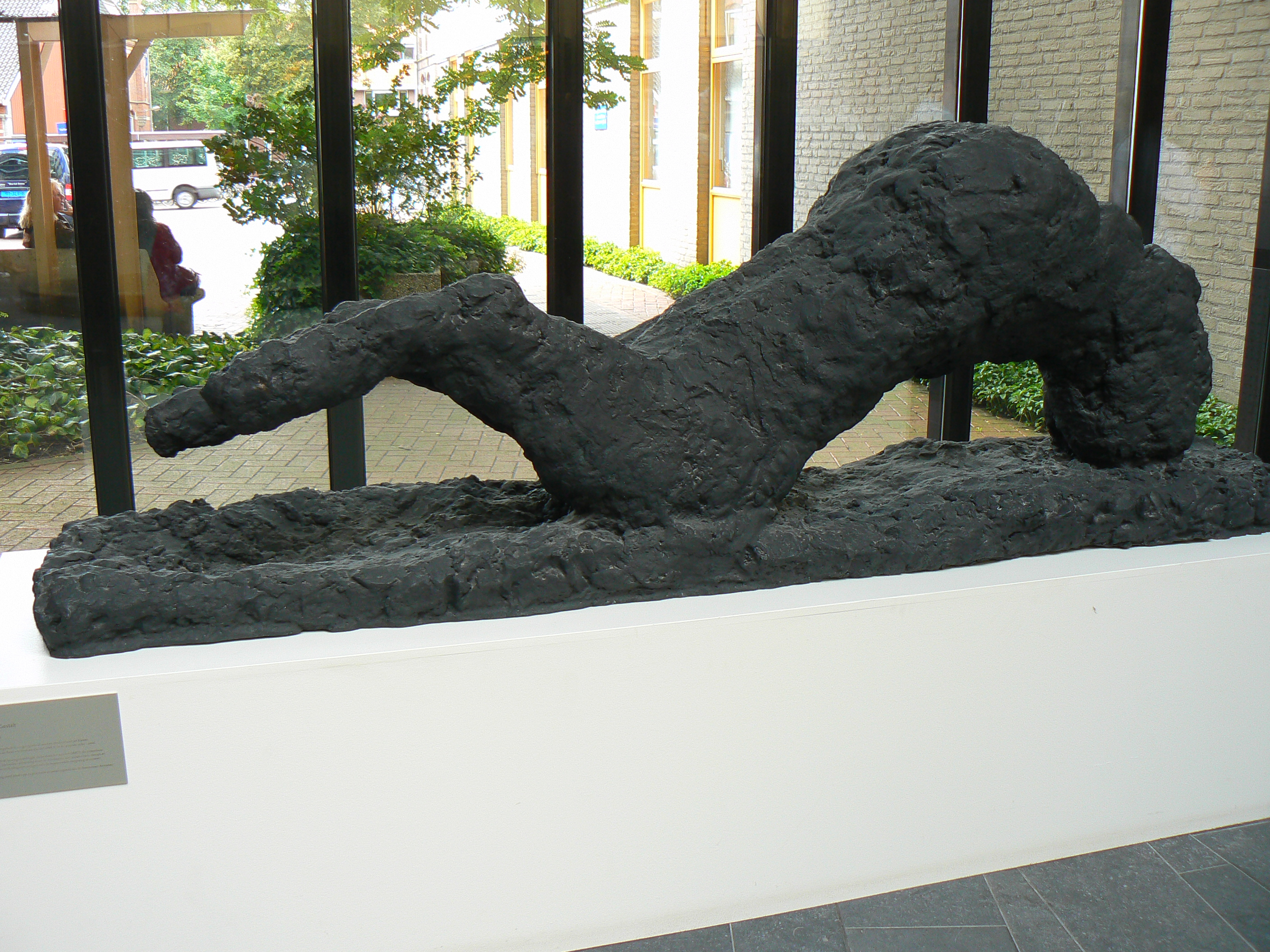 sculpture Liegende Gestalt (2005) by Armando at UMCG, Fonteinstraat - Groningen/The Netherlands